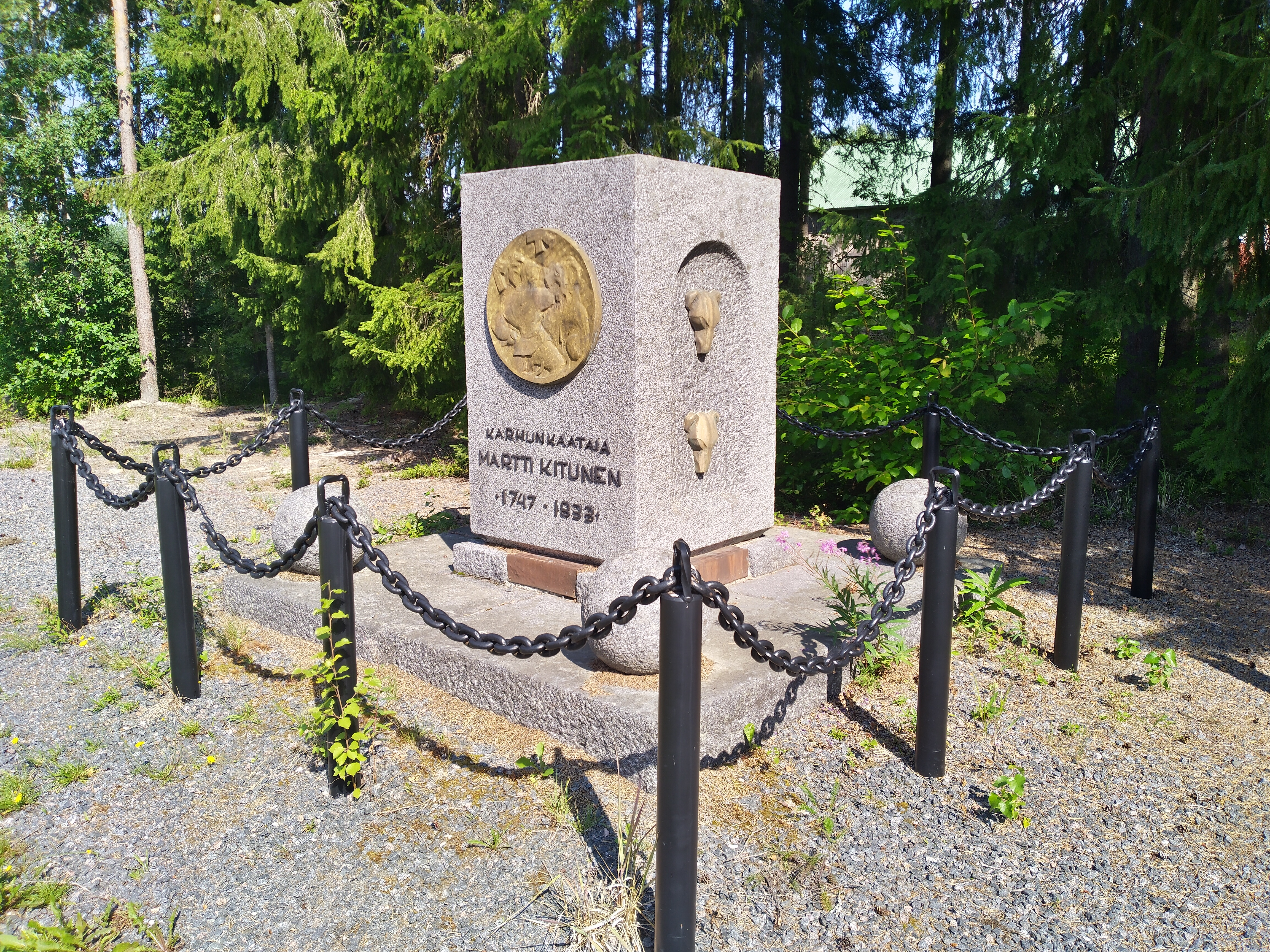 Memorial stone of bear-hunter Martti Kitunen (1747-1833), who killed 193 adult bears. Location: Virrat, Finland.